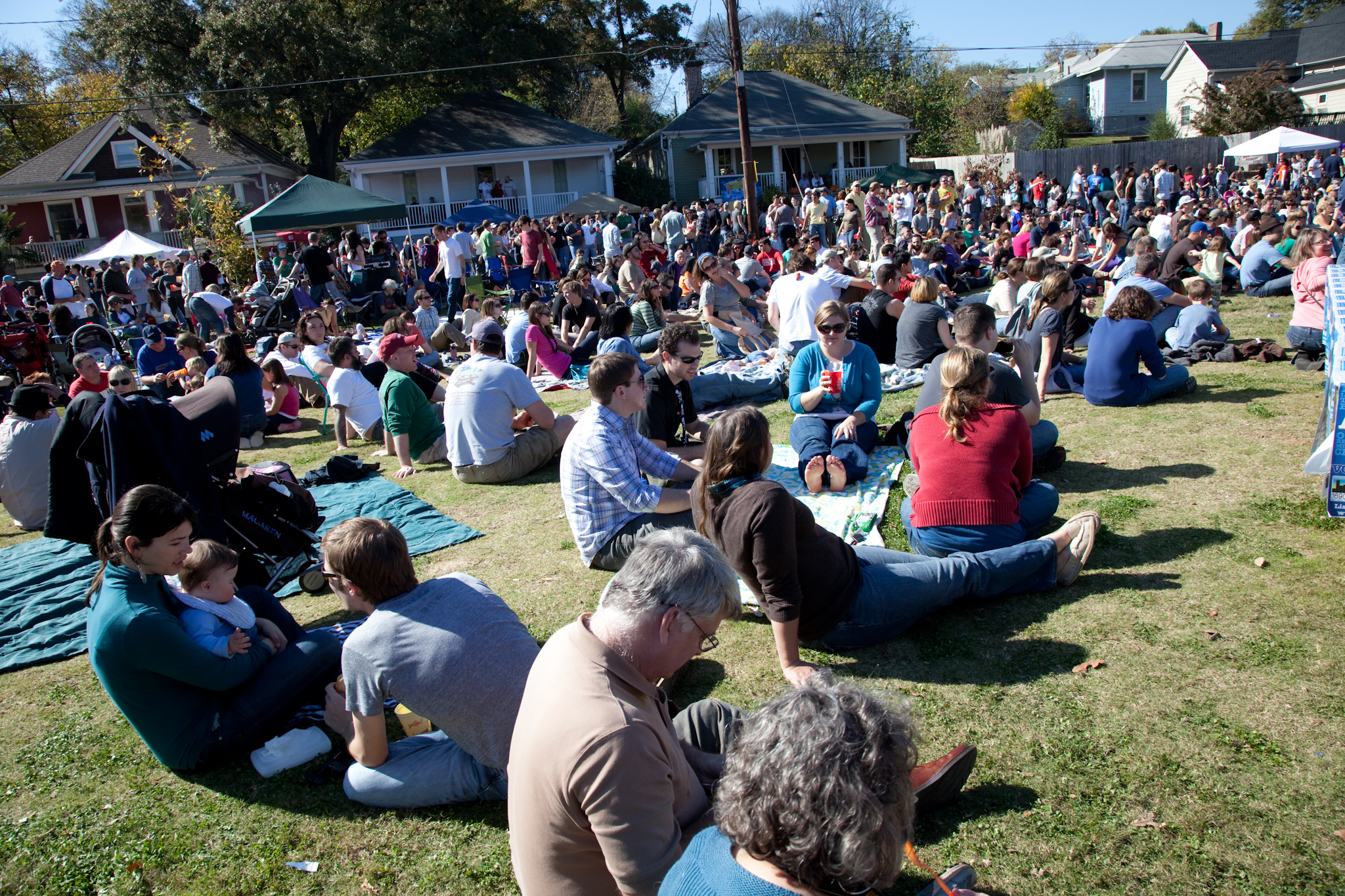 Cabbagetown Chomp and Stomp, Atlanta, 2009